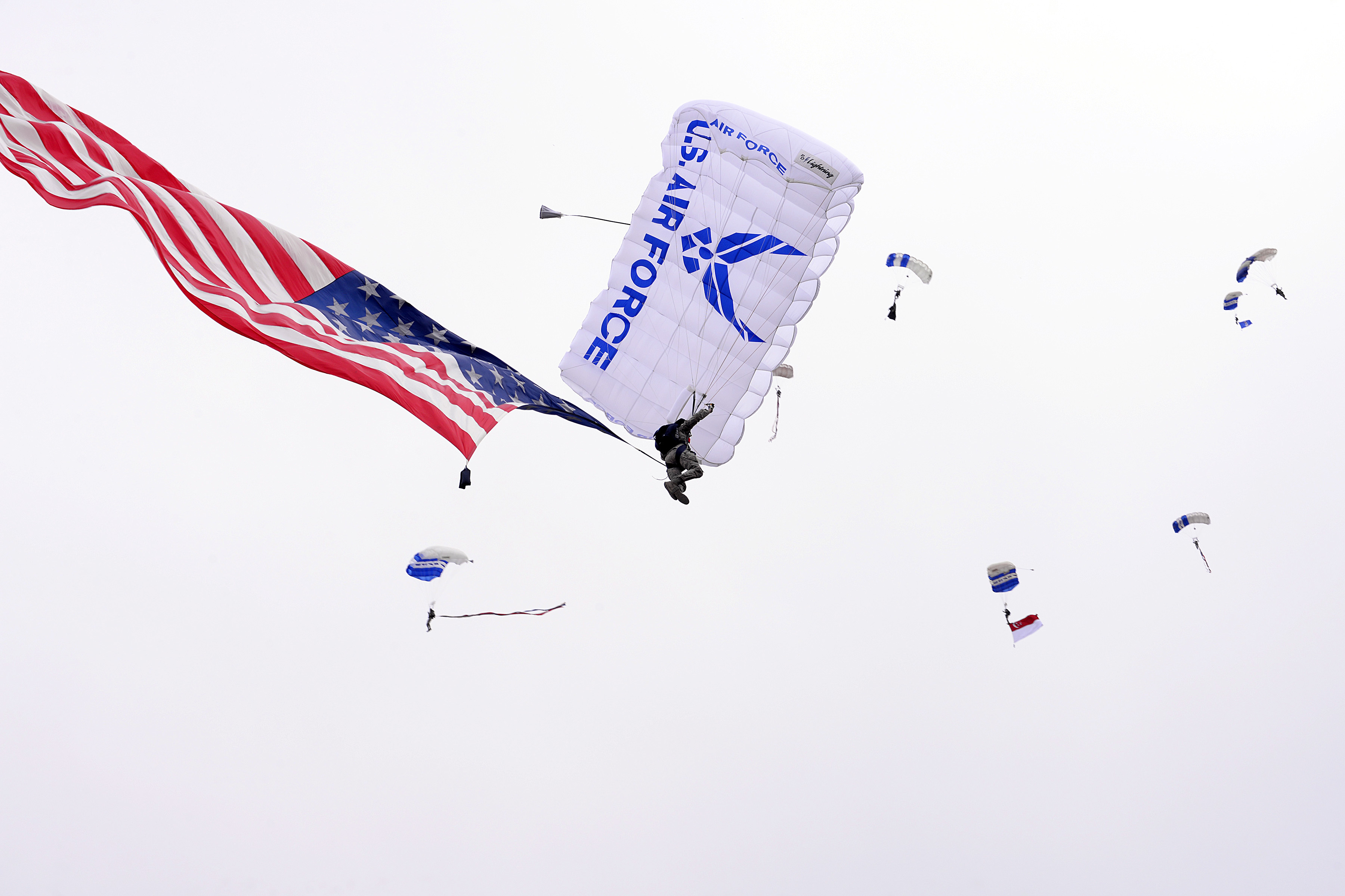 The Wings of Blue parachute team jumps from an MC-130 to land on the U.S. Air Force Academy's Terrazzo in Colorado Springs, Colo., April 24, 2015. Two CV-22 Ospreys assigned to the 71st Special Operations Squadron, 58th Special Operations Wing, then landed on the Terrazzo as part of an Air Force Special Operations Command demonstration in support of the yearly cadet exercise Polaris Warrior. (Air Force photo/Mike Kaplan)